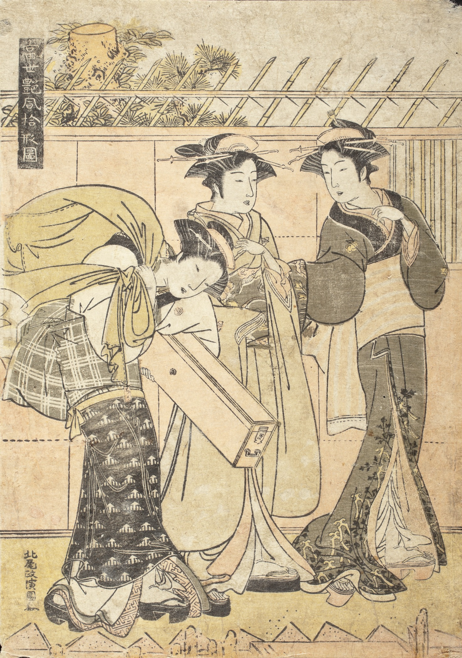 circa 1780 Series: Ten Forms of Modern Lovely Women Prints; woodcuts Color woodblock print, chuban size Image and Sheet: 10 5/16 x 7 1/4 in. (26.2 x 18.5 cm) The Joan Elizabeth Tanney Bequest (M.2006.136.309) Japanese Art